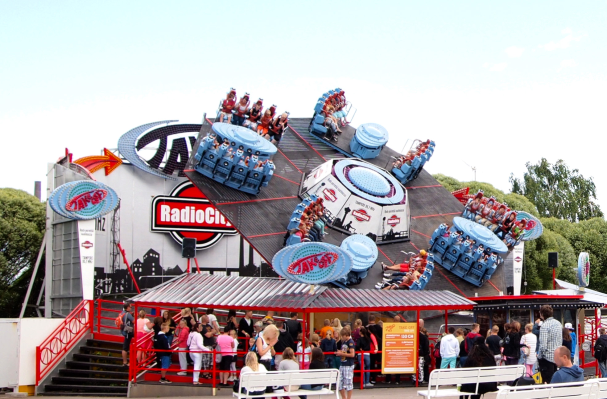 Amusement ride Take Off in Särkänniemi amusement park, Tampere. This photograph was taken with a Olympus E-PL1.